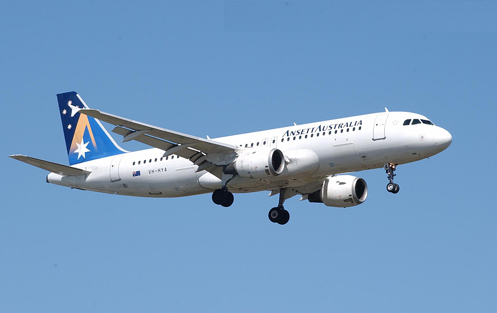 VH-HYA A320-211 of Ansett at Sydney - Mascot on October 9, 2001.